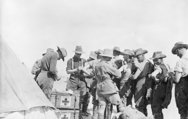 Photograph taken at Heliopolis, Egypt, North Africa on 29 August 1915. Members of the 21st Battalion in line waiting to be vaccinated against cholera prior to leaving for Gallipoli. Captain (later Major) Joseph Patrick Fogarty, (later awarded MC and OBE), Regimental Medical Officer (centre) of the Battalion is giving the injection. Medical boxes are being used as a table for their equipment. Joseph Patrick "Joe" Fogarty (1887-1954) also played VFL football with South Melbourne, Essendon, and University for a total of 16 games. (From the collection of the Australian War Museum)